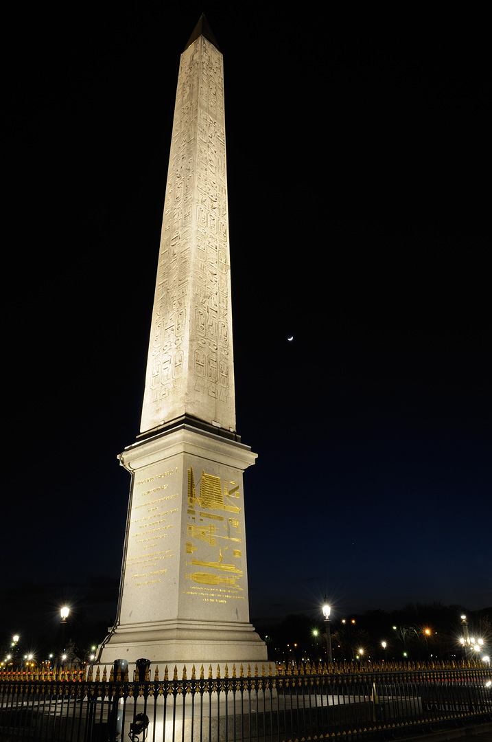 Obelisk standing Place de la Concorde in Paris, France.